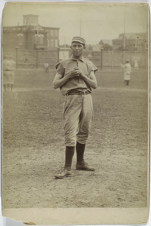 Jim Devlin, circa 1873